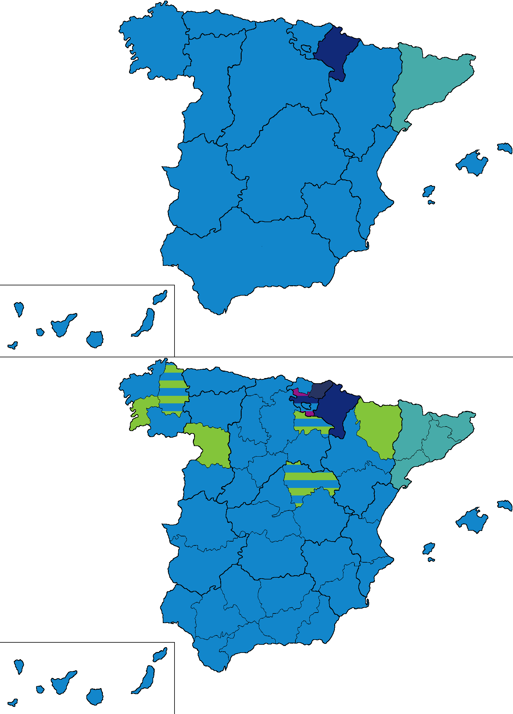 Most voted party in the 1907 Spanish Congress of Deputies election by regions and provinces.